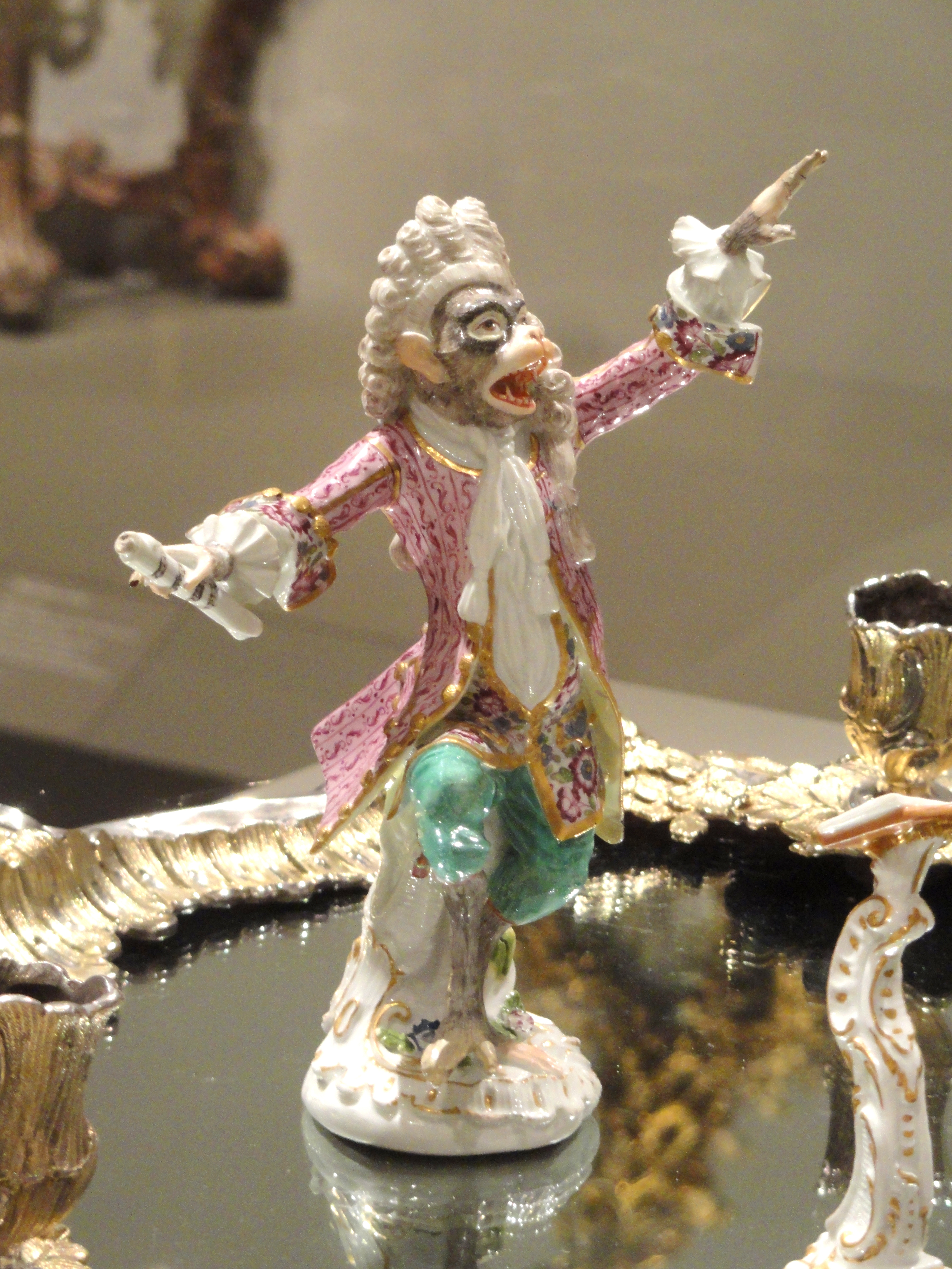 Exhibit in the Art Institute of Chicago, Chicago, Illinois, USA. This artwork is in the public domain because the artist died more than 70 years ago.